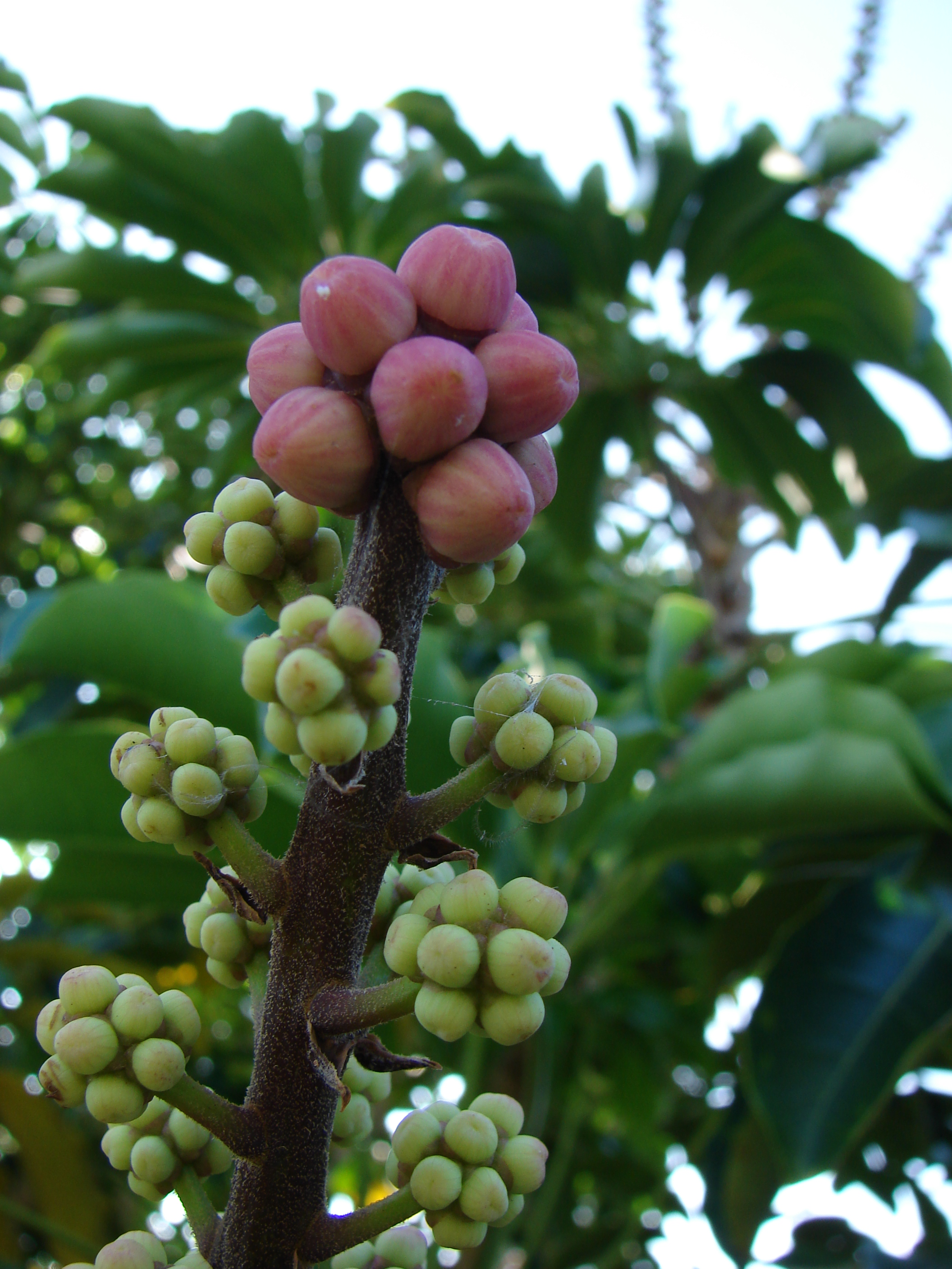 Schefflera actinophylla (fruit). Location: Midway Atoll, 4211 Commodore Ave Sand Island